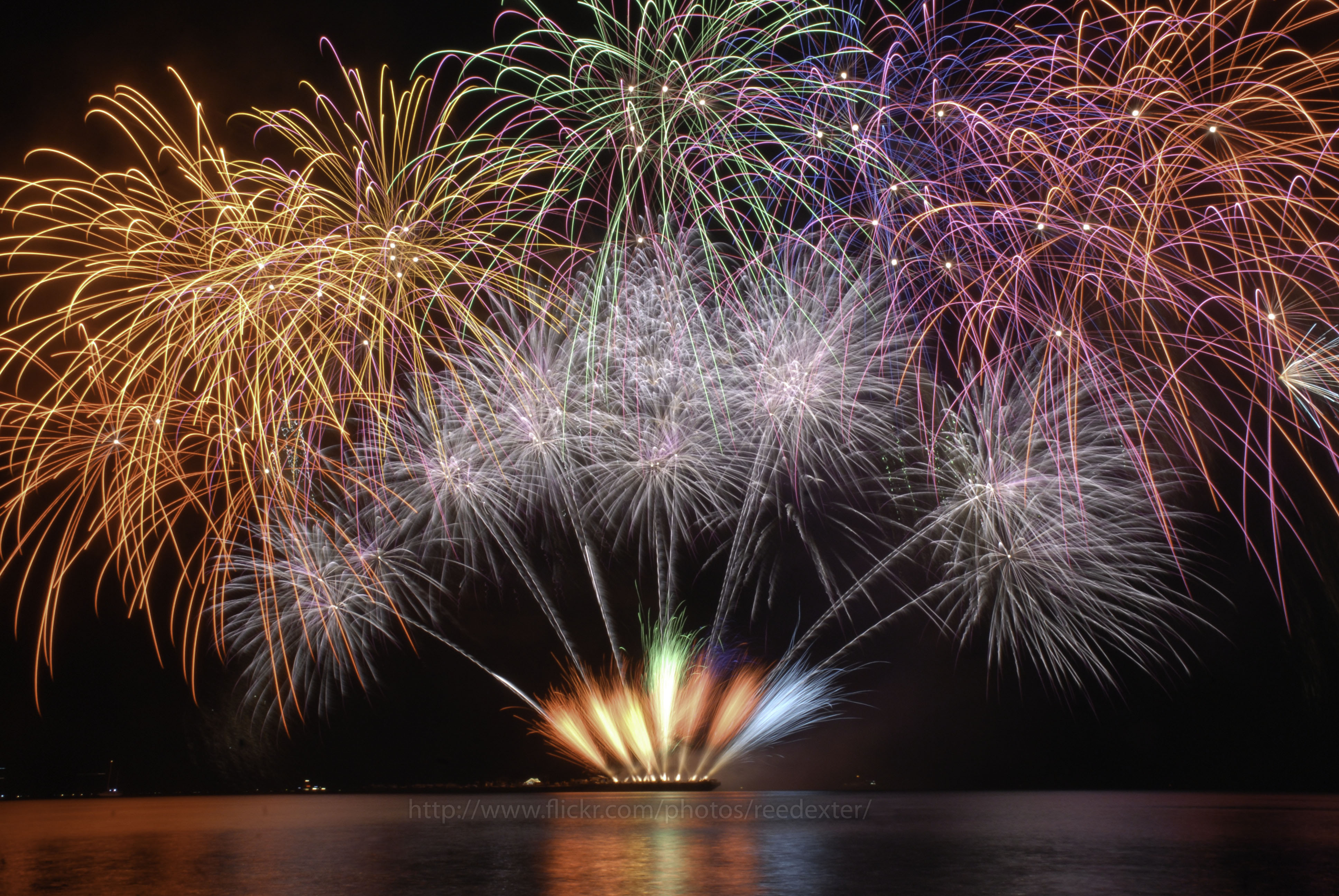 Fireworks display by Australian fireworks manufacturer, Howard and Sons Pyrotechnics at the 2010 (1st) Philippines International PyroMusical Competition.